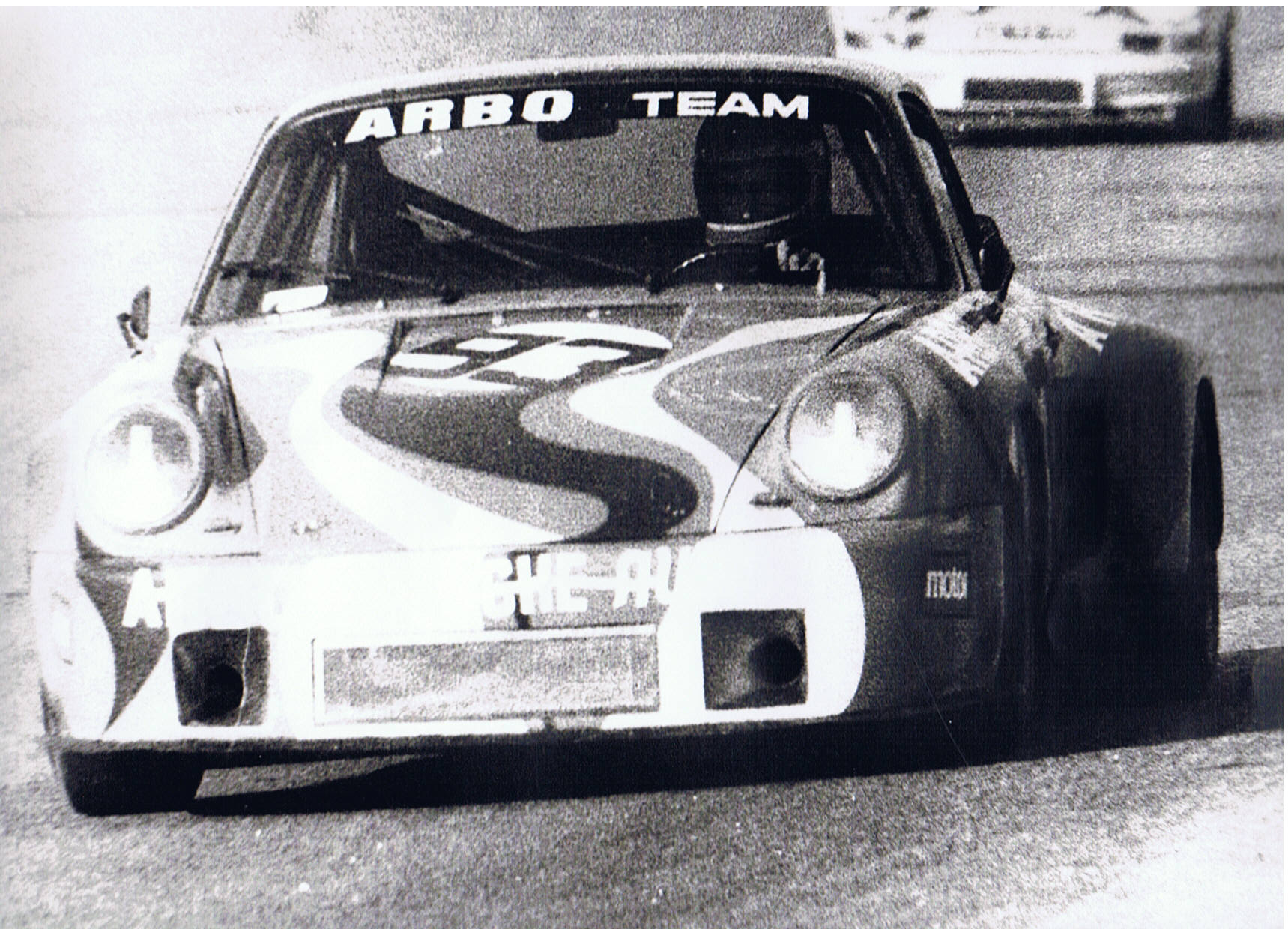 Clemente Ribeiro da Silva